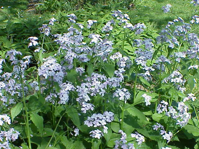 Species: Lunaria rediviva Family: Brassicaceae Image No. 1